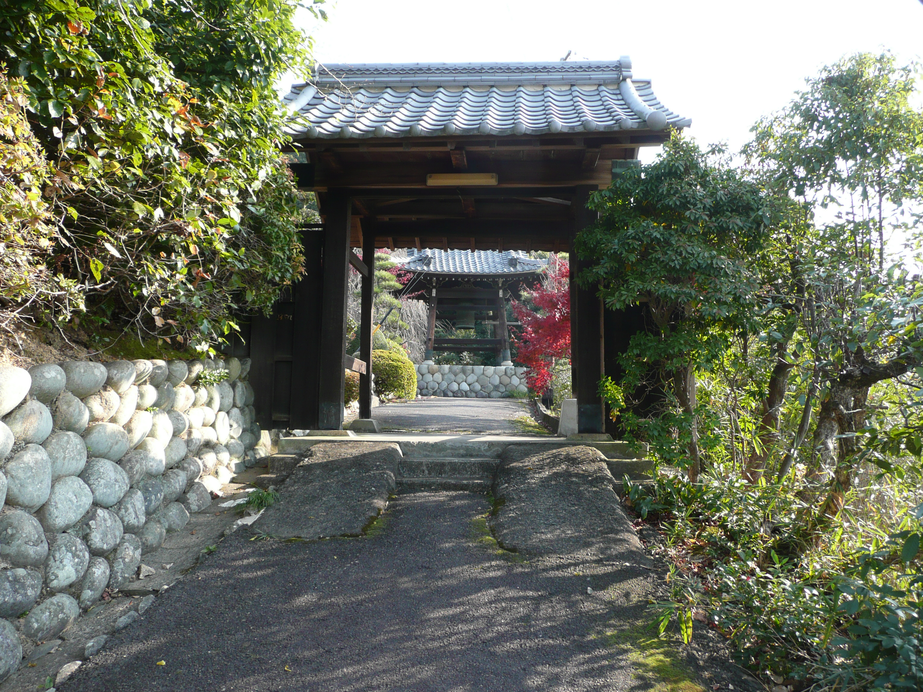 楽田城の裏門